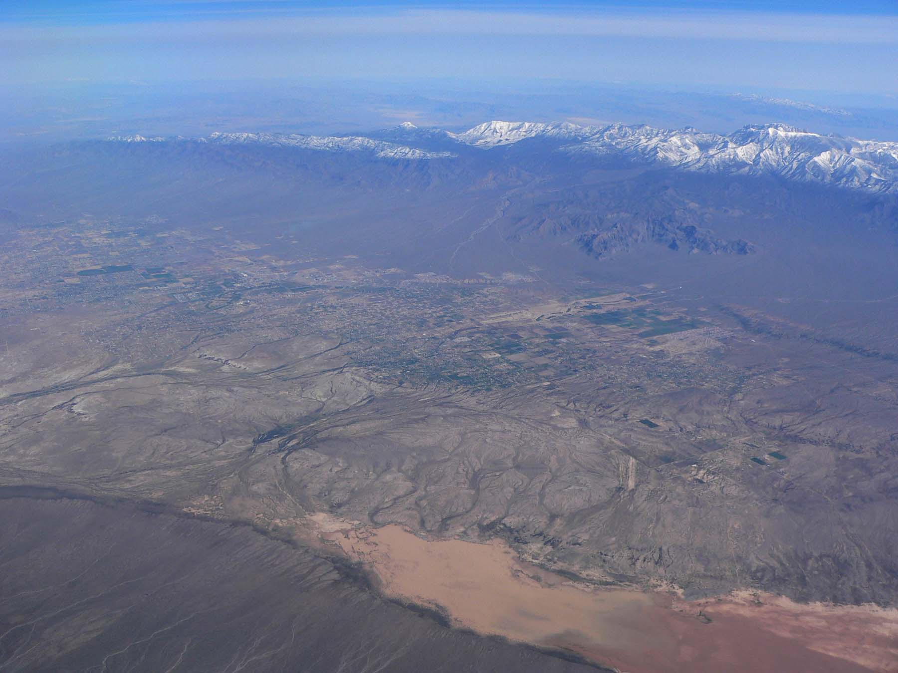 Aerial view of Pahrump, Nevada with Spring Mountains in the background